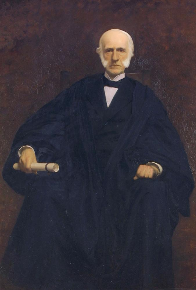 "Ezekiel Gilman Robinson (1815-1894), oil on canvas, painted by the German-born painter Otto Grundmann. 44 1/4 in. x 60 1/2 in. Courtesy of the Brown University Portrait Collection, Brown University, Providence, R.I.